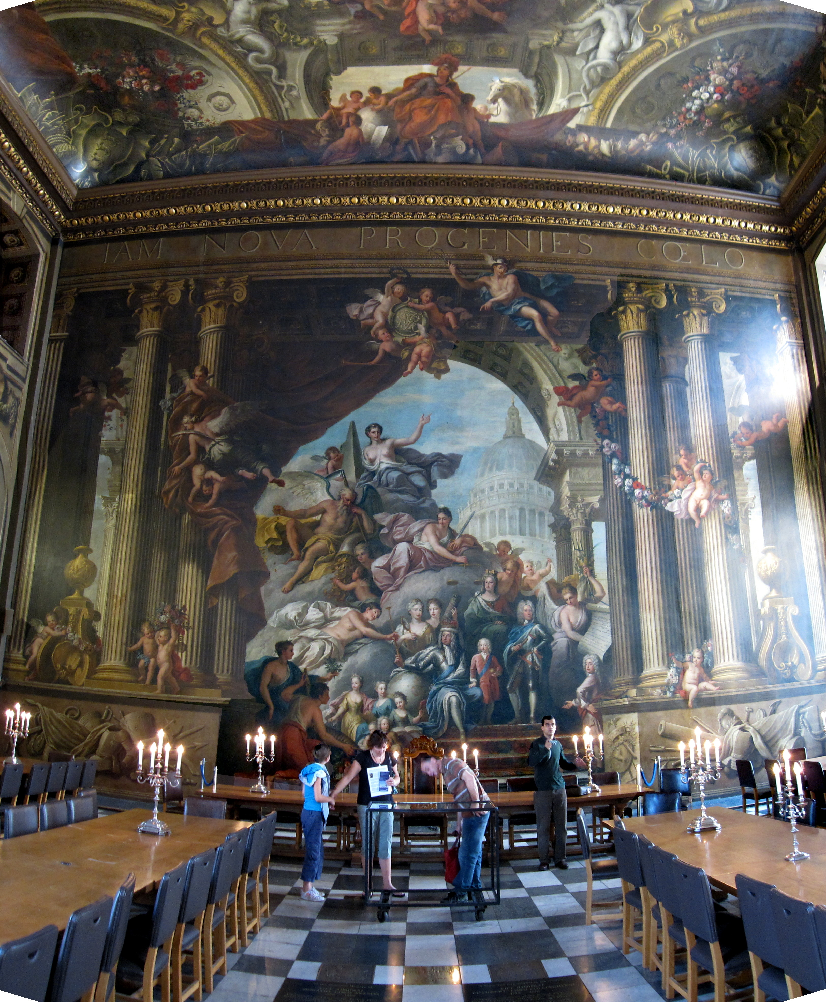 Royal Naval College, Greenwich